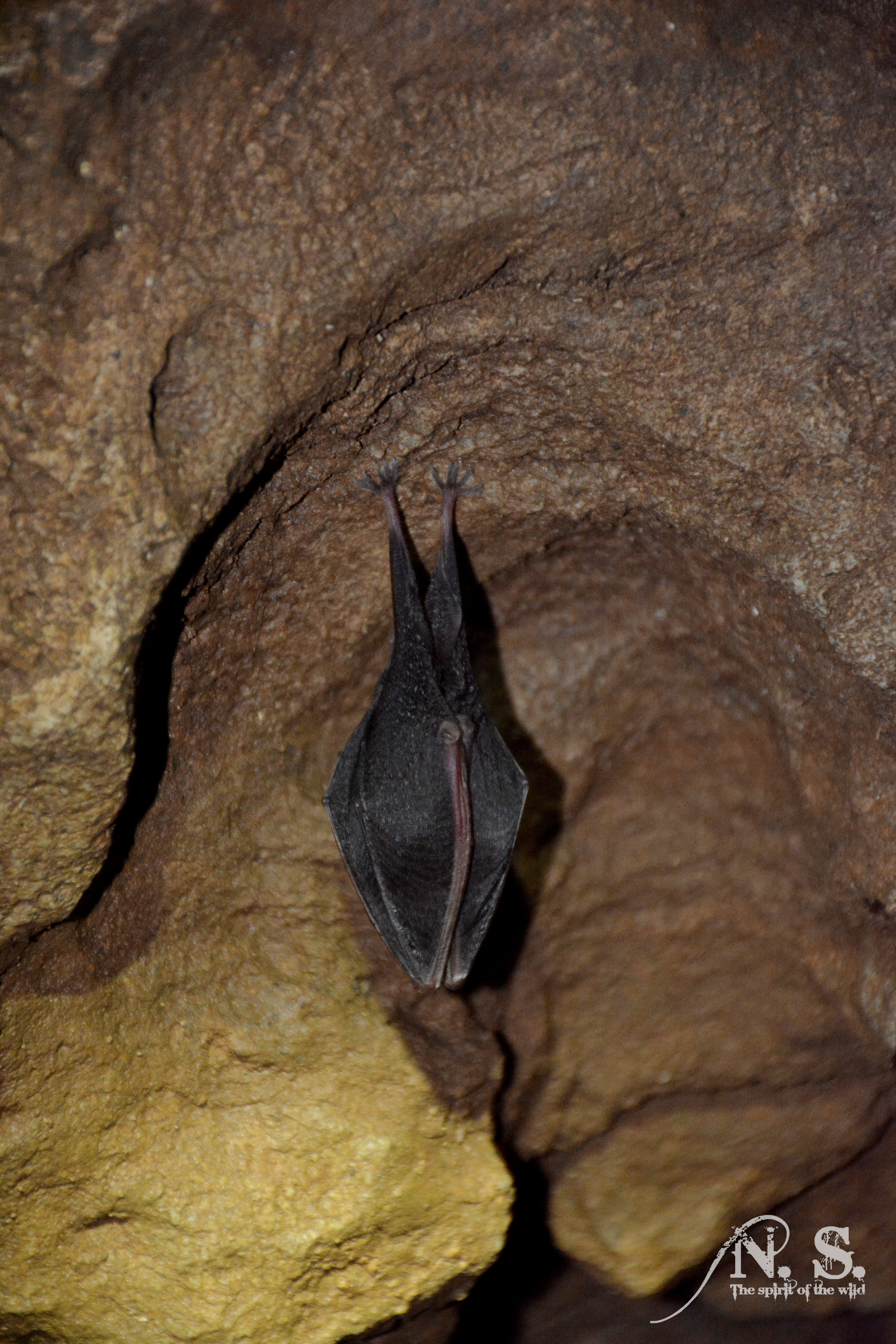 It's a bat from cave "Vodnata pesht" in Bulgaria.